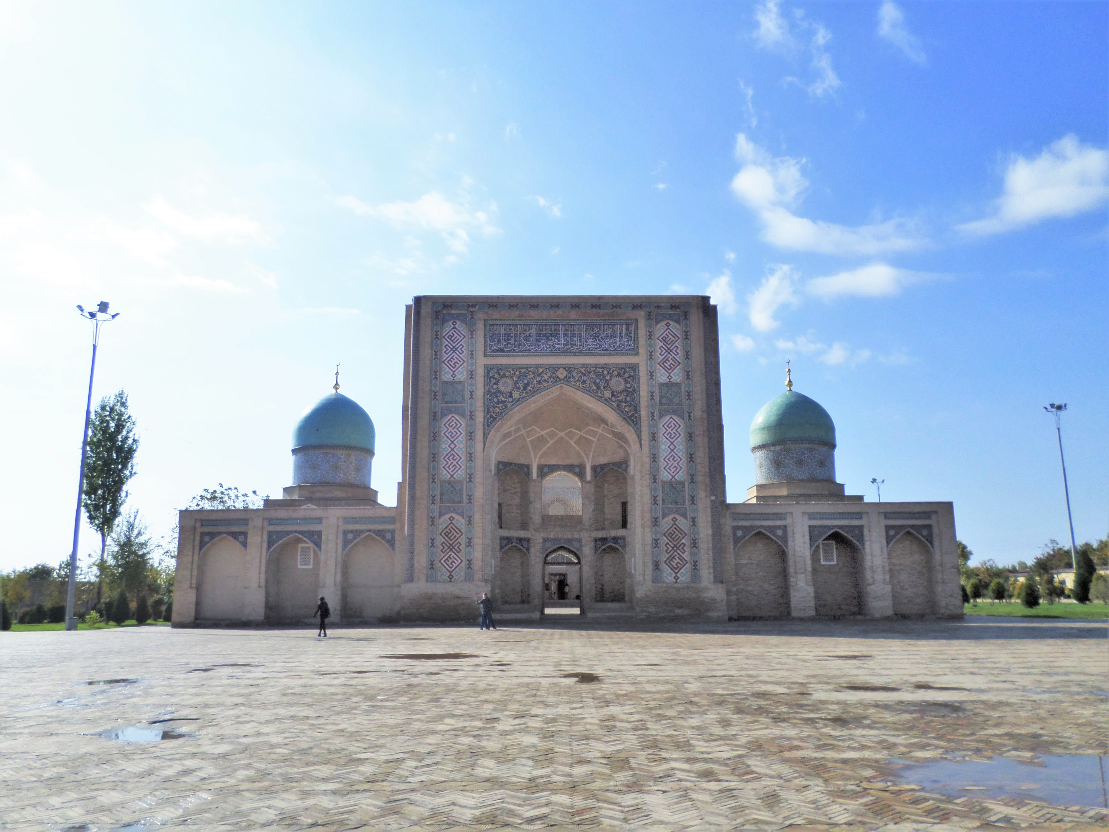 Medrese Barakhan